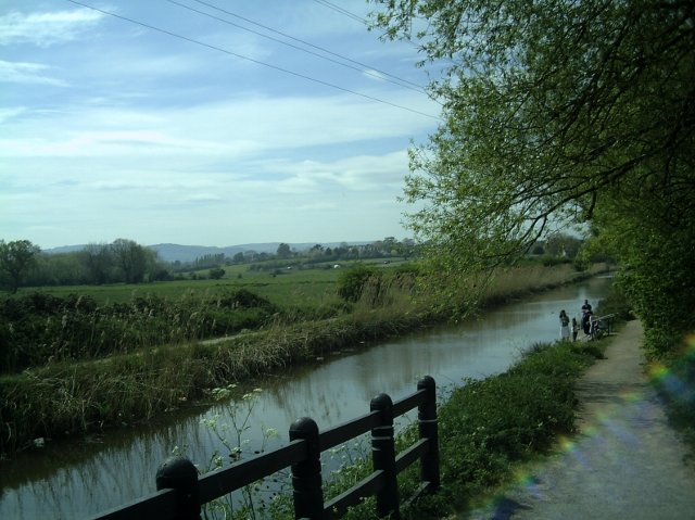 Canal taunton - Bridgwater